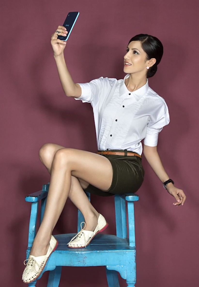 Exhibit Magazine Tech Stunner of March 2015 Koyal Rana